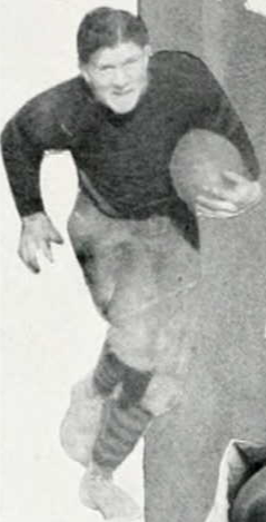 Freddie "Froggie" Meiers, halfback for Vanderbilt University in the 20s.